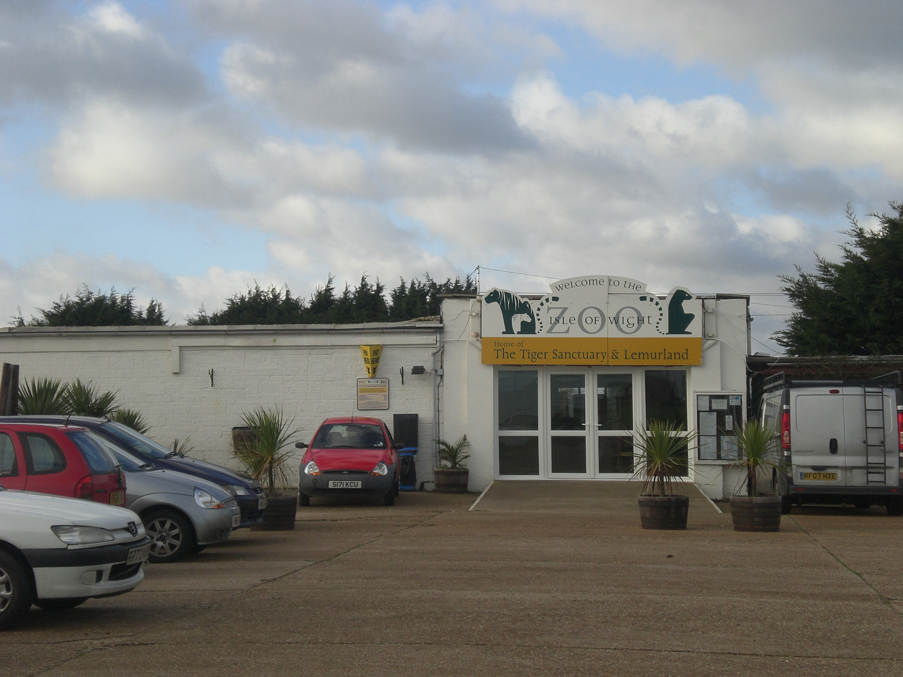 The entrance to the Isle of Wight Zoo, located off Culver Parade, Sandown, Isle of Wight.